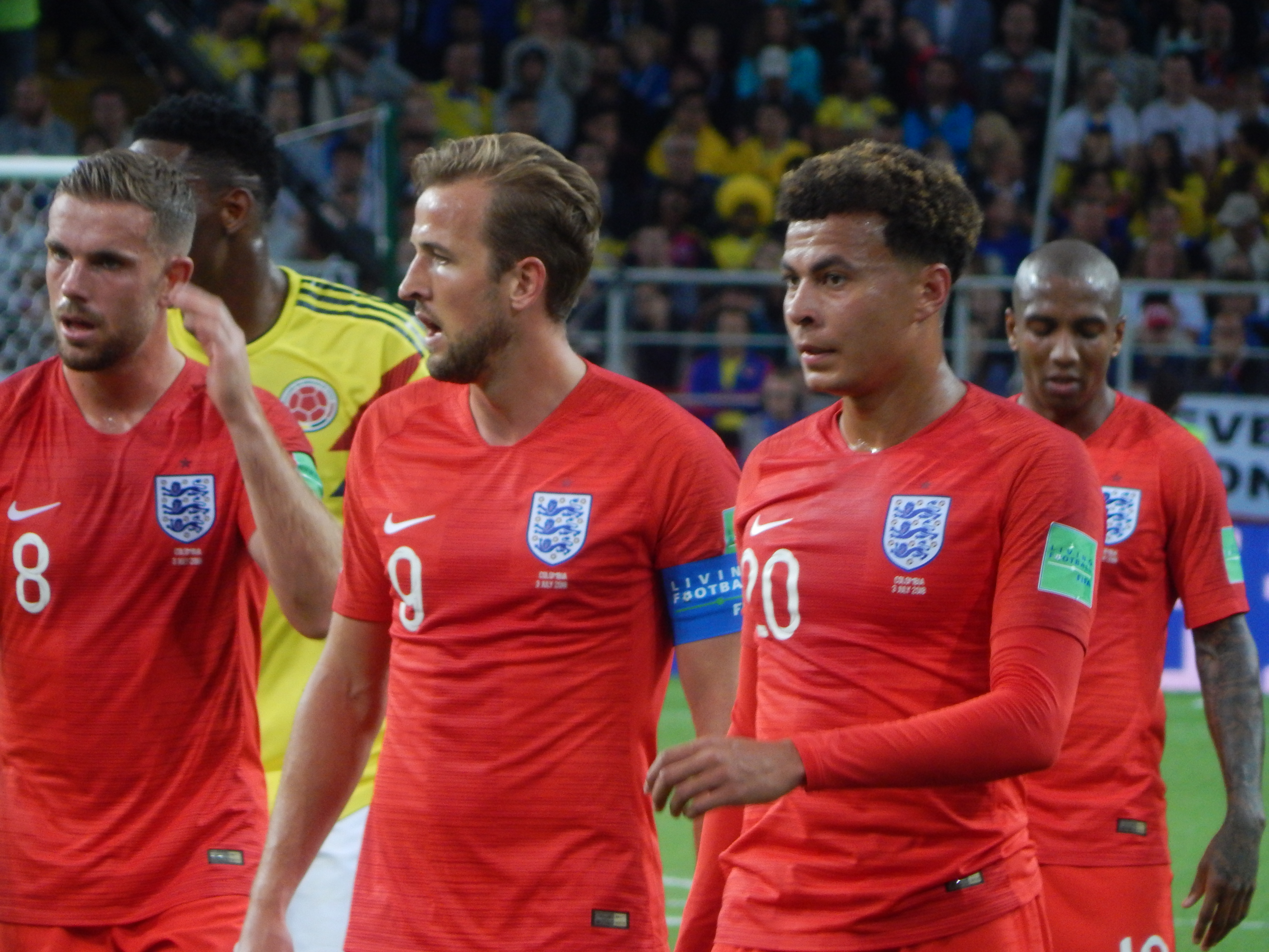 FIFA World Cup 2018, Round of 16, Colombia vs. England